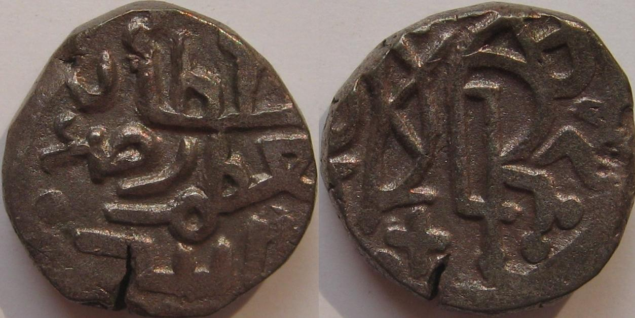 Delhi Sultanate, Turks, Jalal al-Din Radiyya (Raziyya) (AH634–637 AH,1236–1240AD), Billon Jital (Ref. R 873, Goron D105, Tye 393.2, Deyell#329) Obverse: Al-Sultan Al-Mu'azzam Radiyya Al-Deen Bint (Al-Sultan) (The Sultan, The Great, Approved One of Faith, Daughter of the Sultan) Reverse: Horseman to right; Above and around: (Sri Hamirah), Cross (star) symbol below